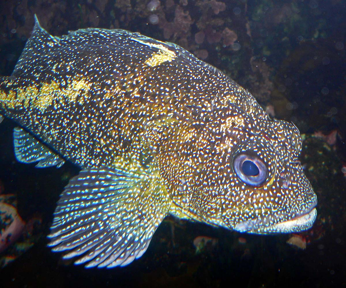 Photo of Sebastes nebulosus (China rockfish) at the Vancouver Aquarium